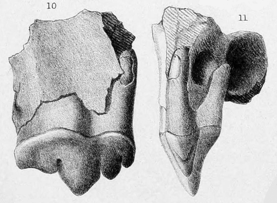 Molar and maxilla fragment, holotype of Smilodon fatalis, originally Felis (Trucifelis) fatalis.